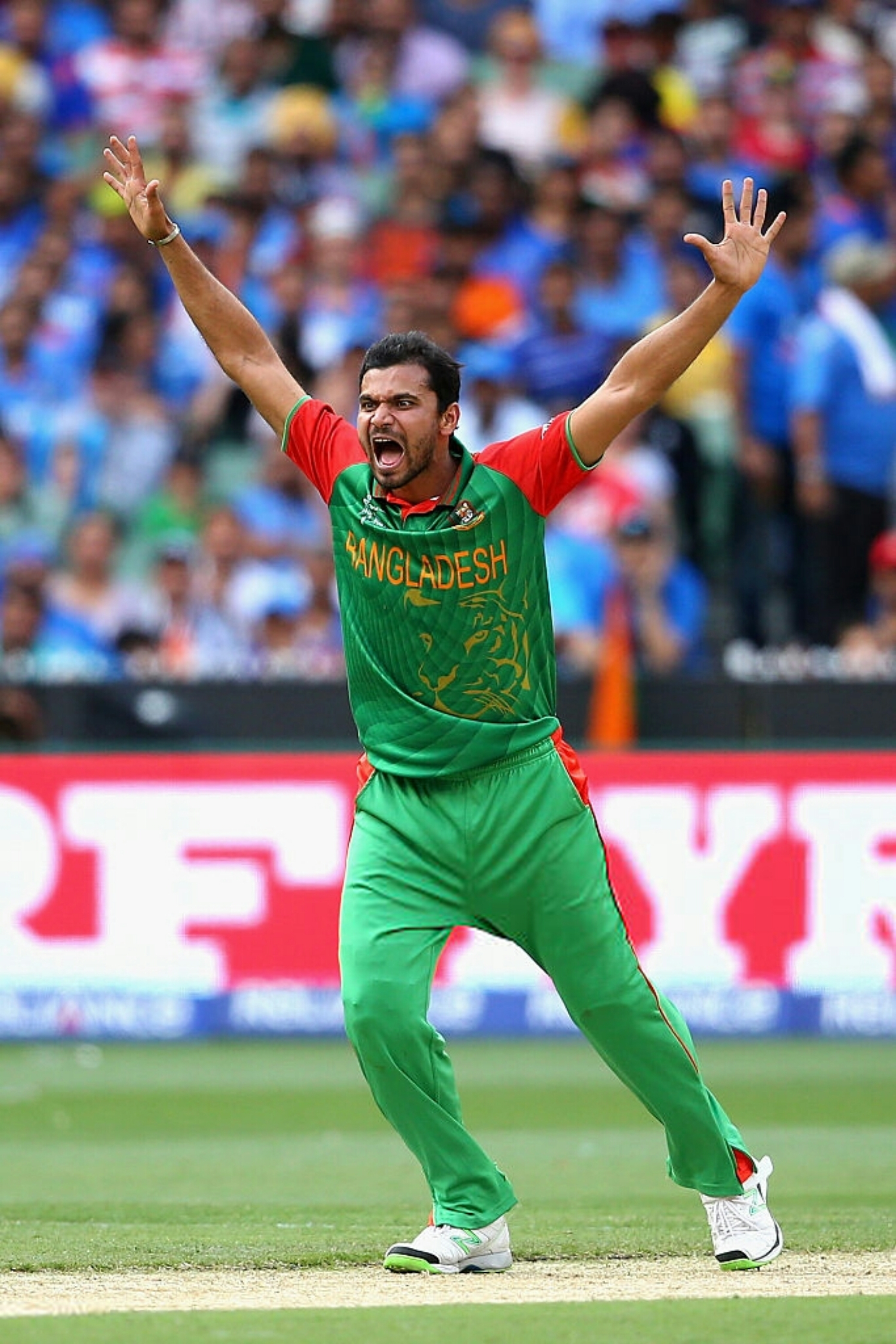 MELBOURNE, AUSTRALIA - MARCH 19: Mashrafe Mortaza of Bangladesh appeals for a wicket during the 2015 ICC Cricket World Cup match between India and Bangldesh at Melbourne Cricket Ground on March 19, 2015 in Melbourne, Australia. (Photo by Quinn Rooney/Getty Images)